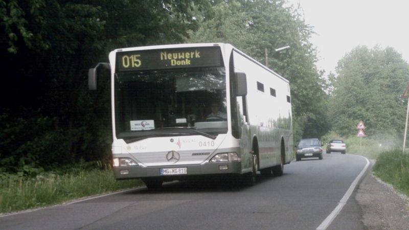 Bus in Donk, Neuwerk, Mönchengladbach, Germany.